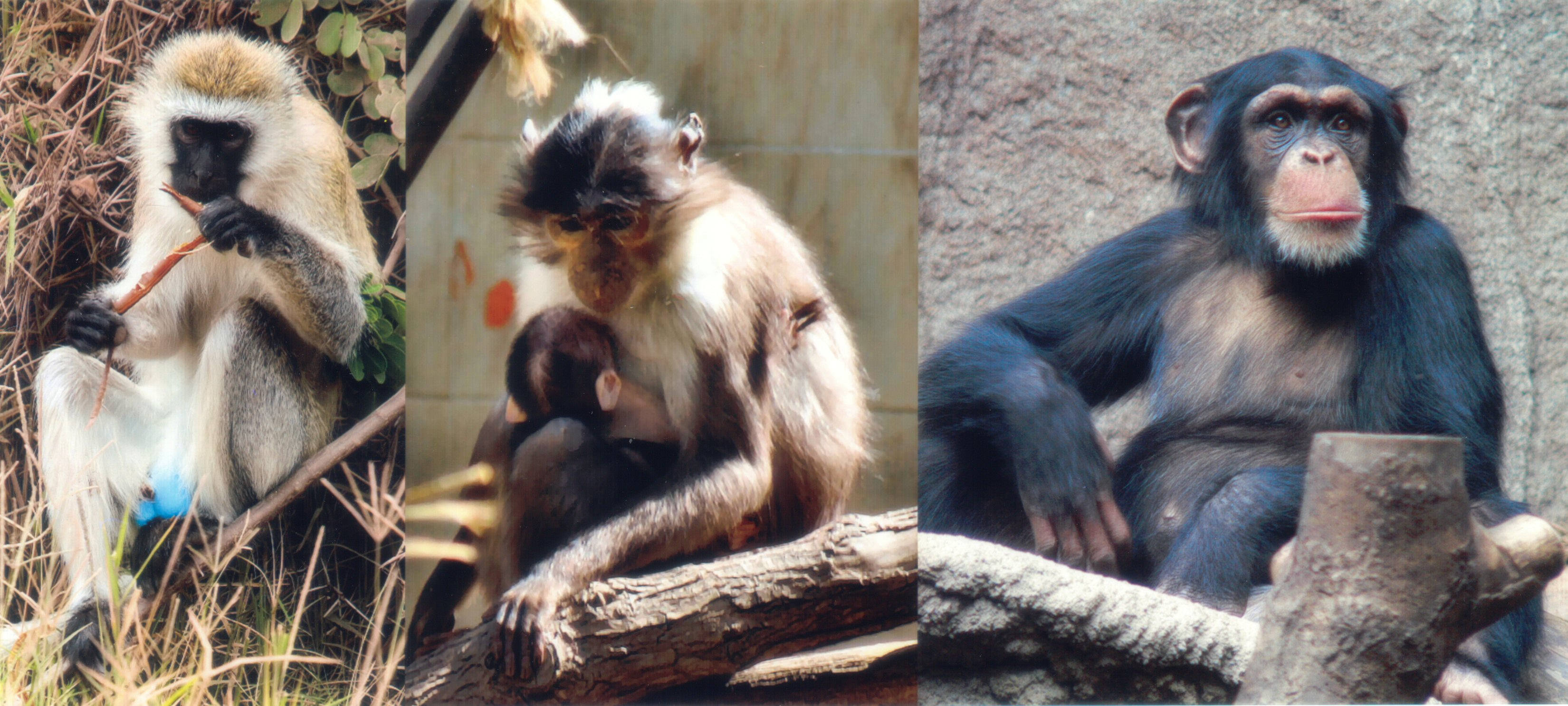 Cercocebus atys lunulatus.